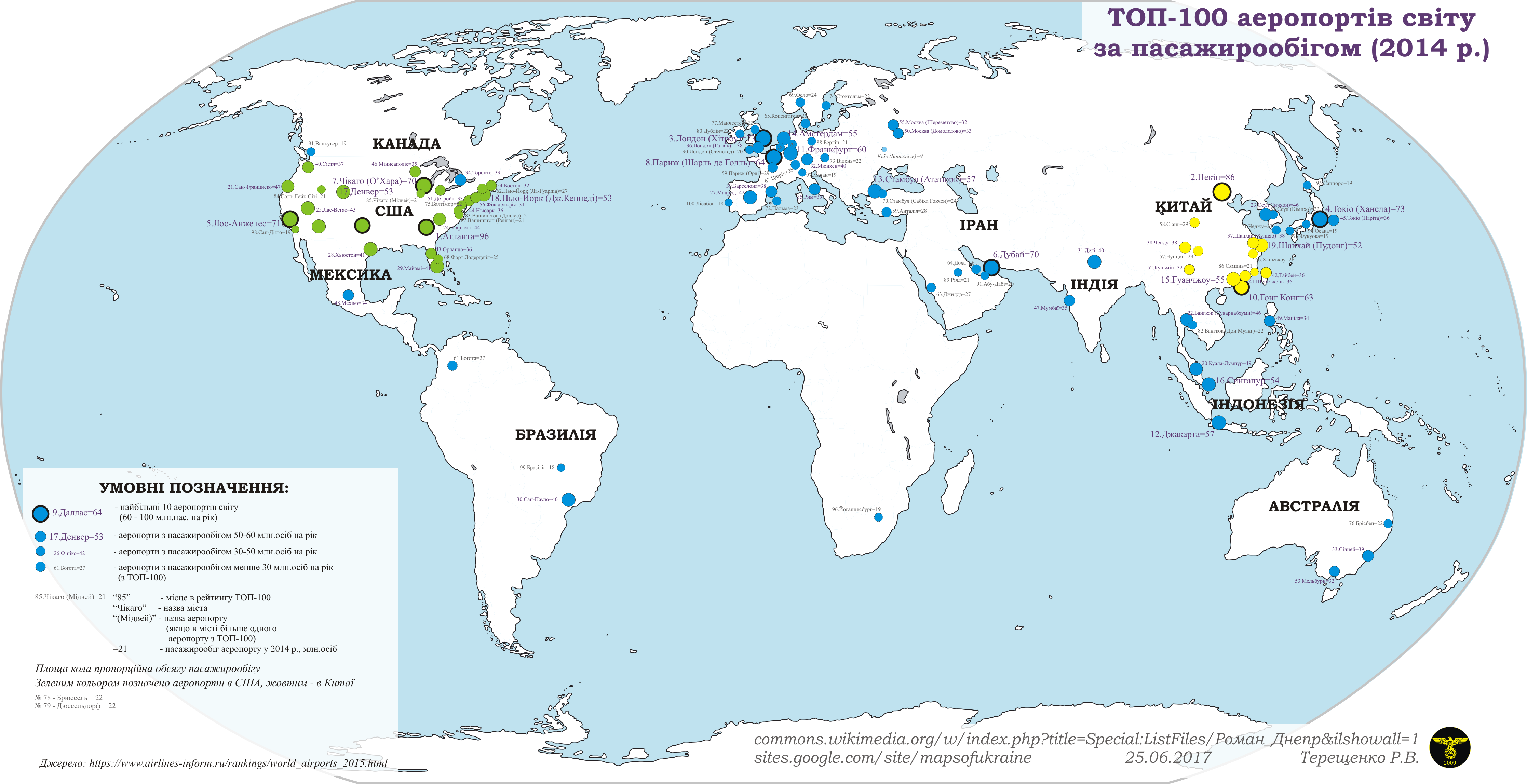 TOP-100 airports in the world by passenger traffic by 2014